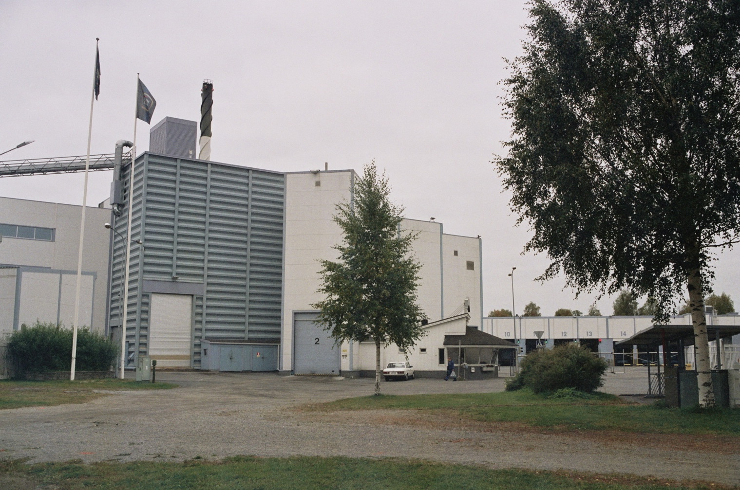 Lapin Kulta brewery in Tornio, Finland. Owned by Hartwall by the time the photo was taken. Eventually closed in August 2010.